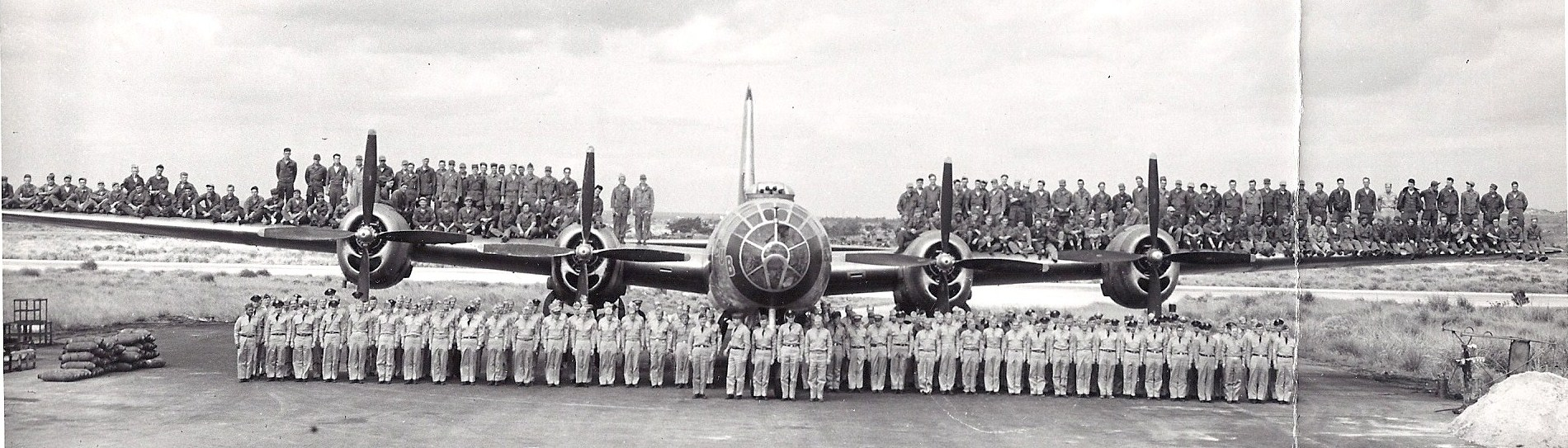 19th Bomb Group crew photographed with B-29 with "BUB" nose art, early 1951, on Kadena AFB in Okinawa, Japan